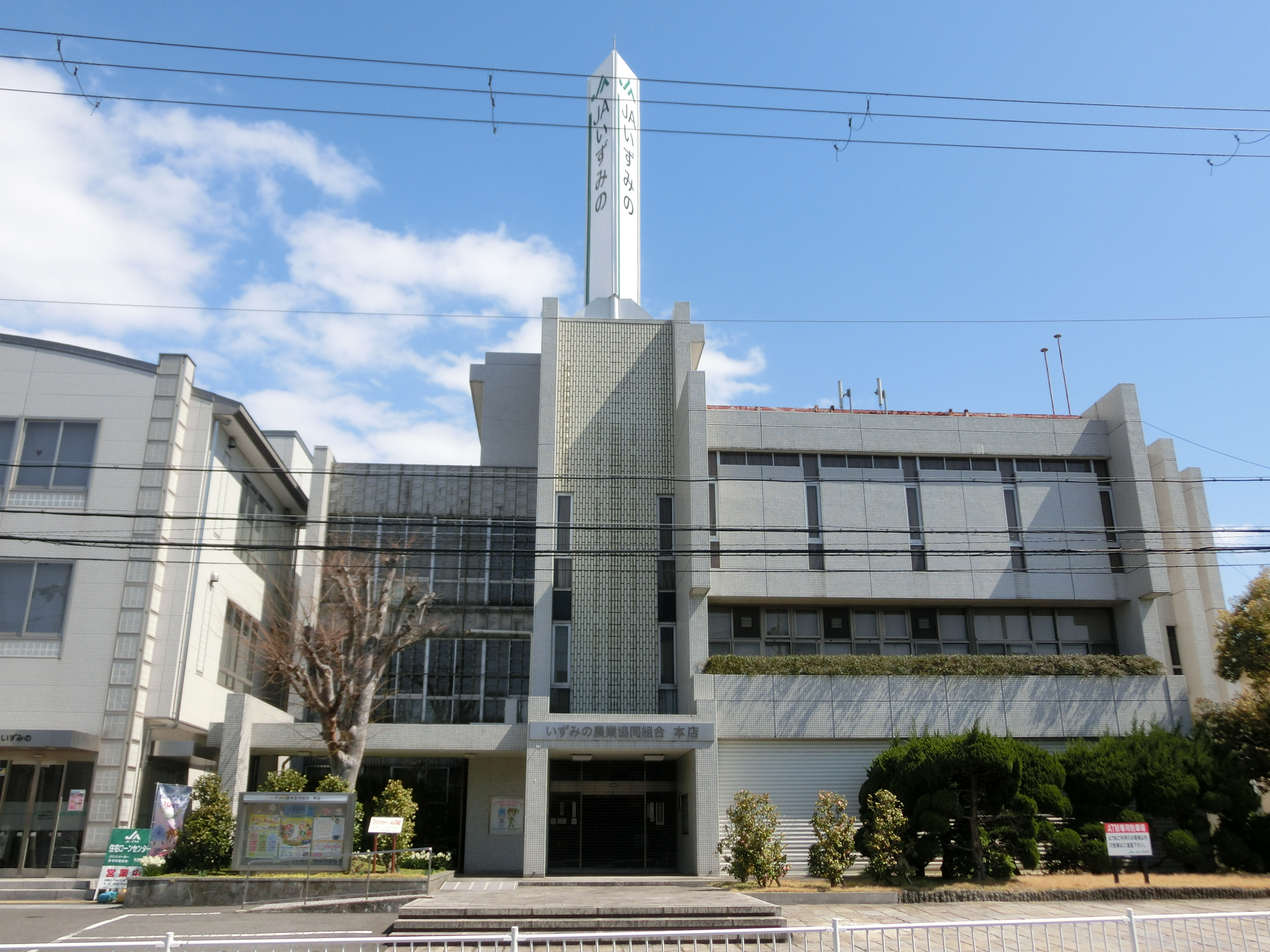 JA Izumino Headquarters